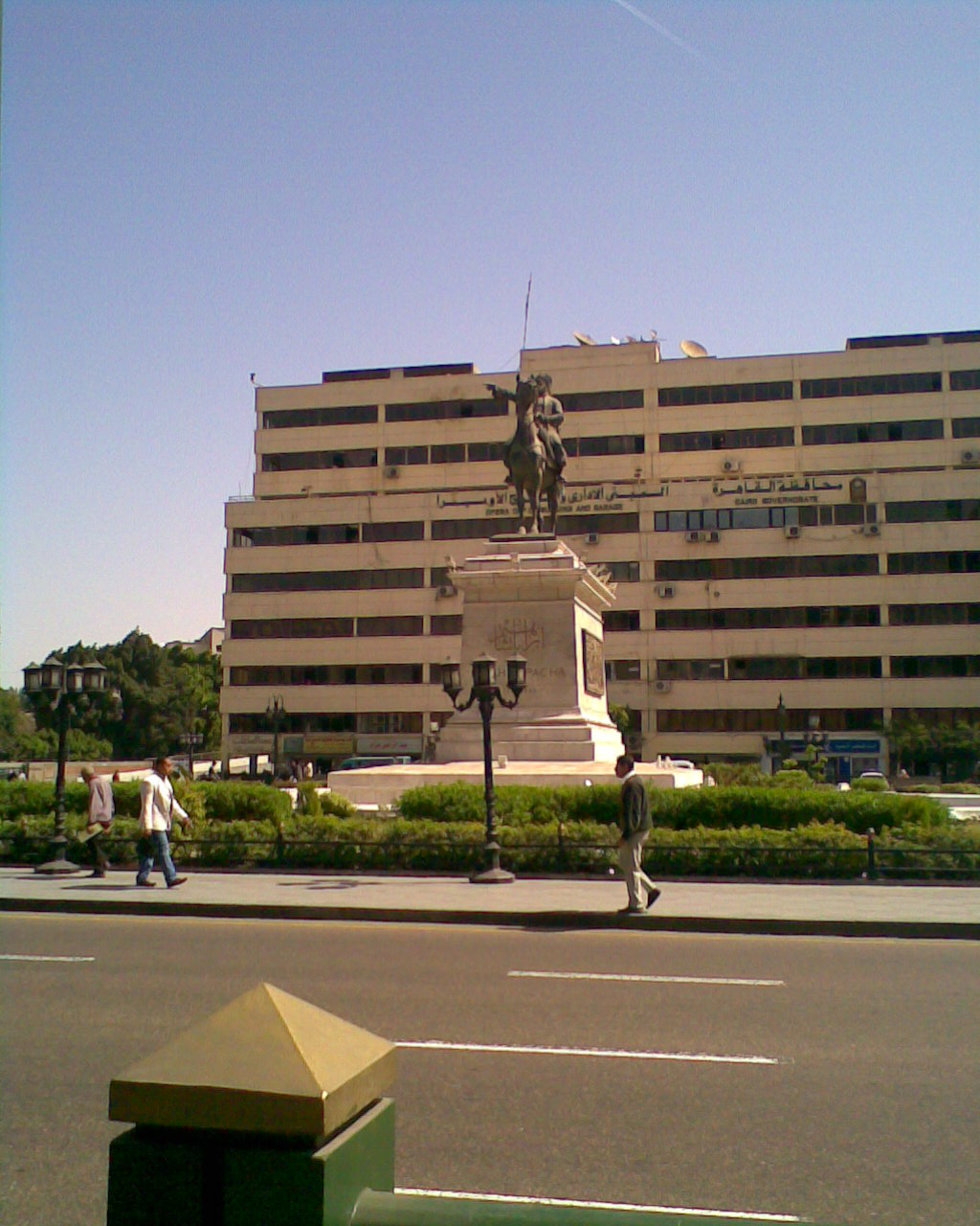 Ibrahim Pasha statue at Opera square, Cairo, Egypt.